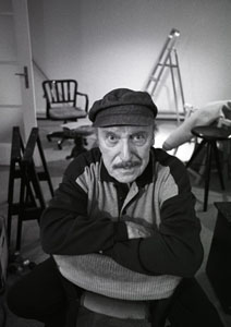 Jack Rolland